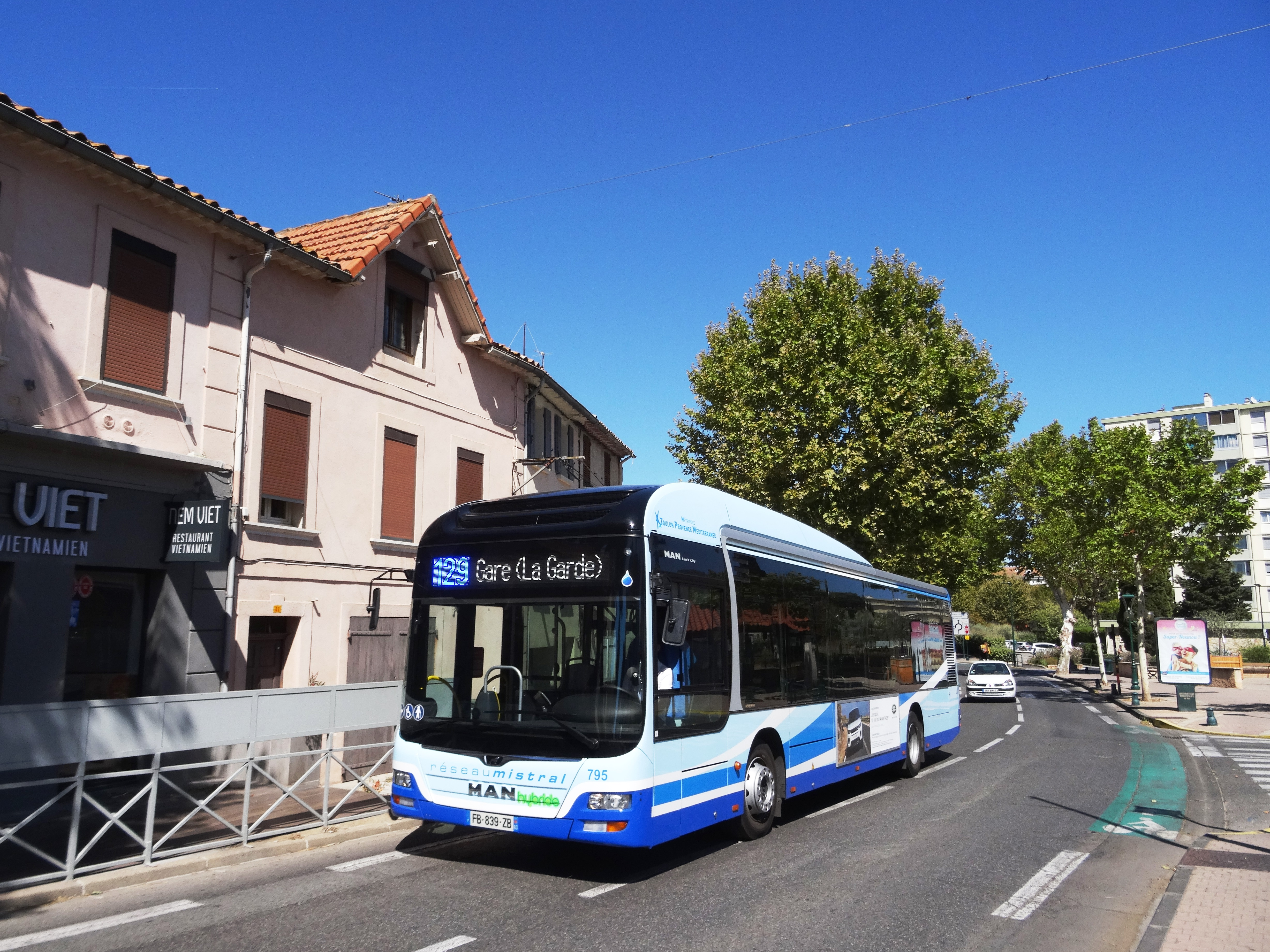 Man Lion's City Hybride sur la ligne 129